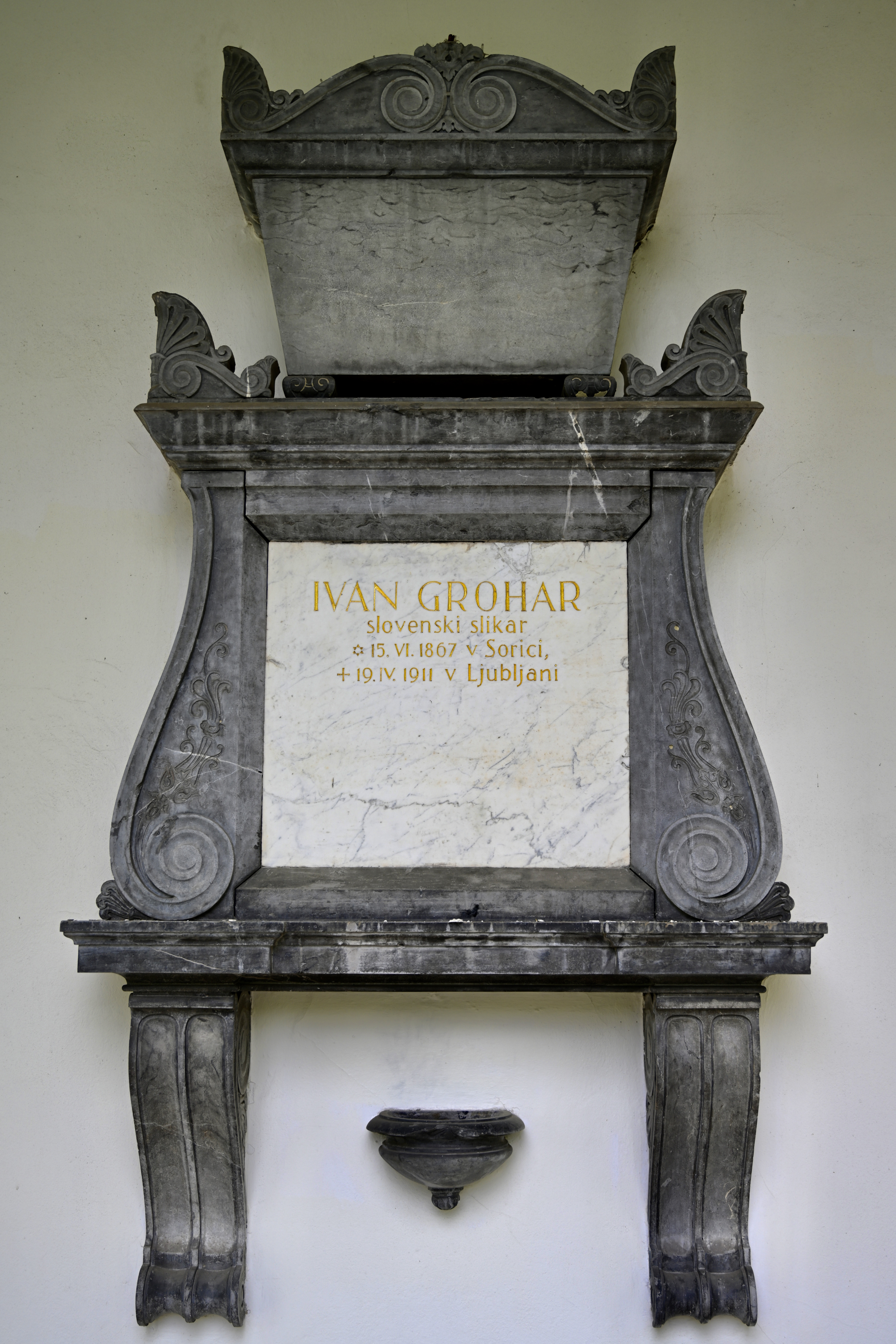 Tombstone of Ivan Grohar, Slovenian Painter, at Navje in Ljubljana